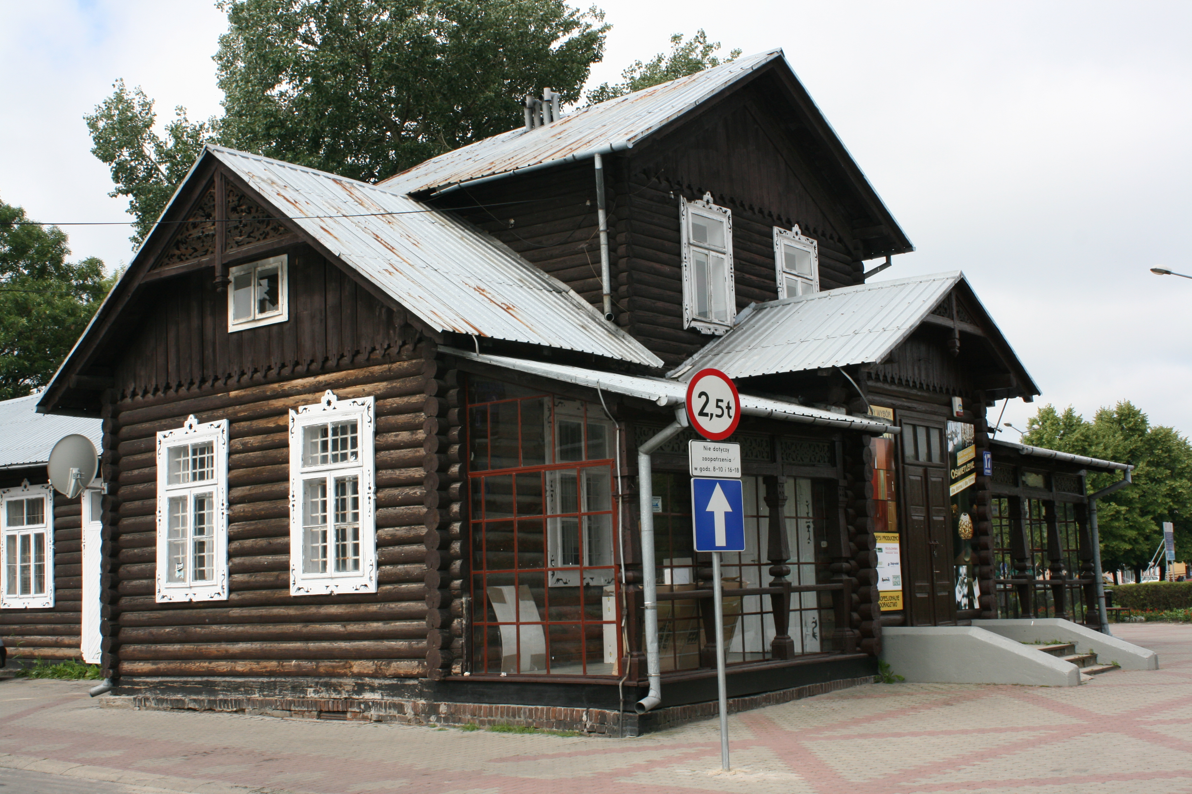 Tea House in Tomaszów Lubelski